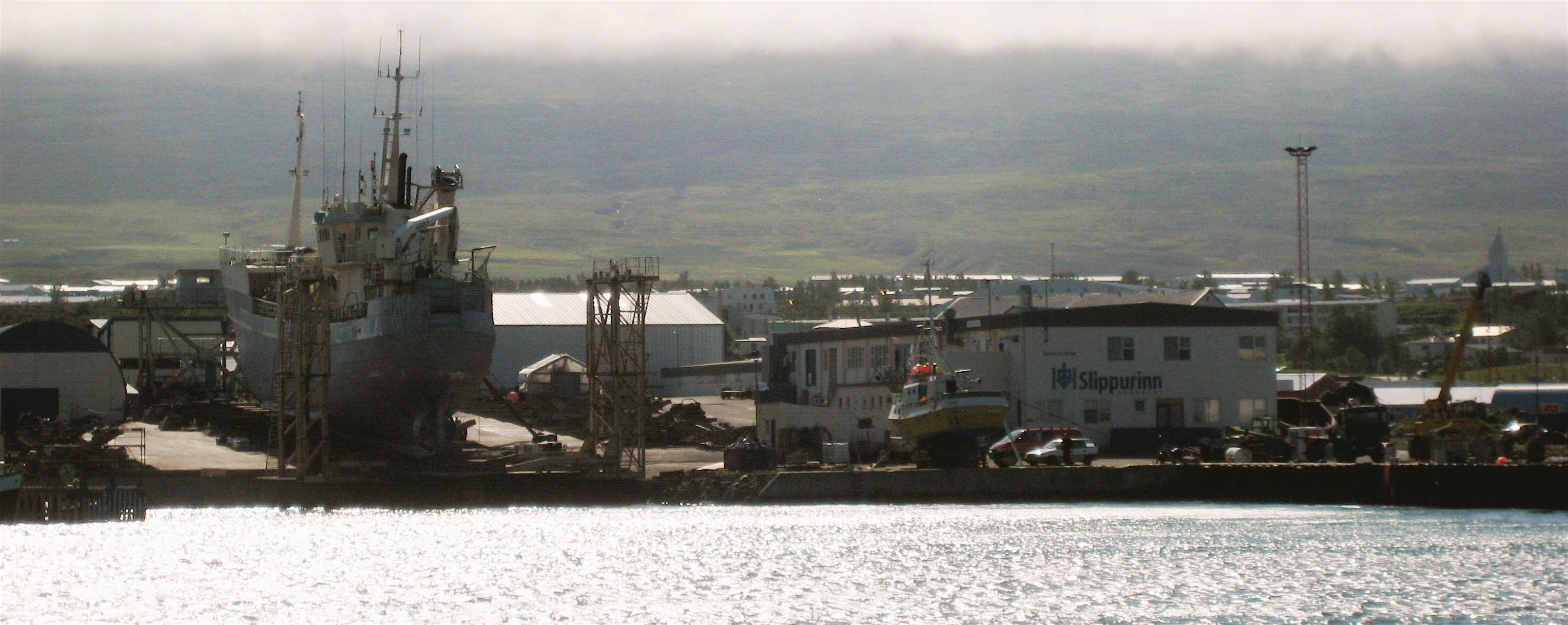 Ship-repair facilities in the port of Akureyri, Iceland.